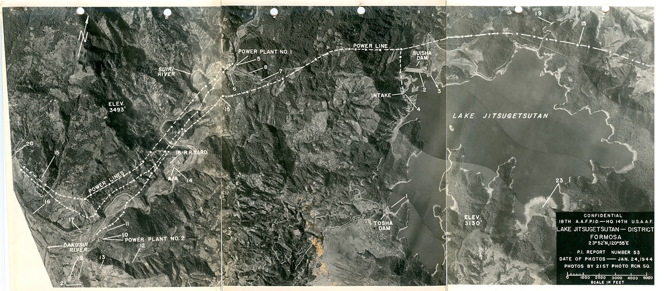 LAKE JITSUGETSUTAN DISTRICT